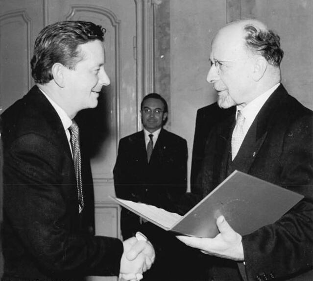 Klaus Wittkugel receiving the Patriotic Order of Merit in Bronze on the occasion of the former's fiftieth birthday